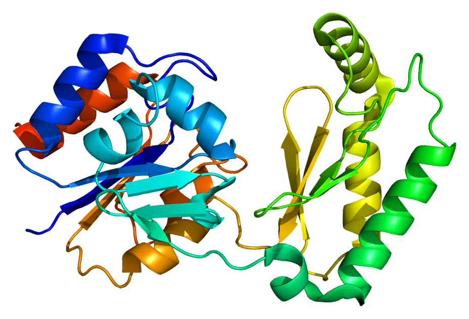 Structure of the PMM1 protein. Based on PyMOL rendering of PDB 2fuc.